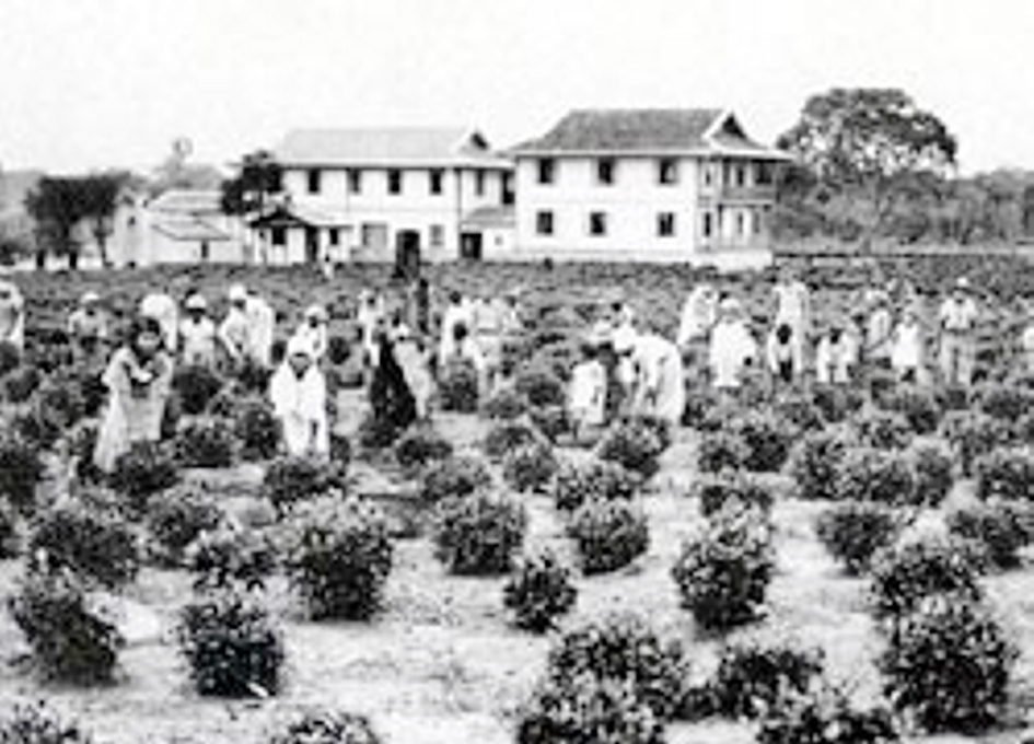 Japanese Immigrants in tea Plantation near Registro city, São Paulo